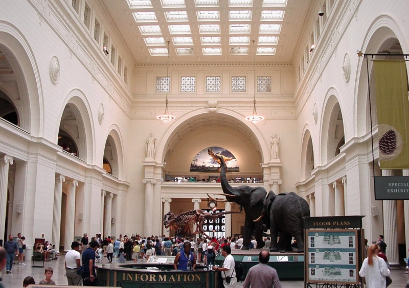 Field Museum of Natural History, Chicago, Illinois, USA